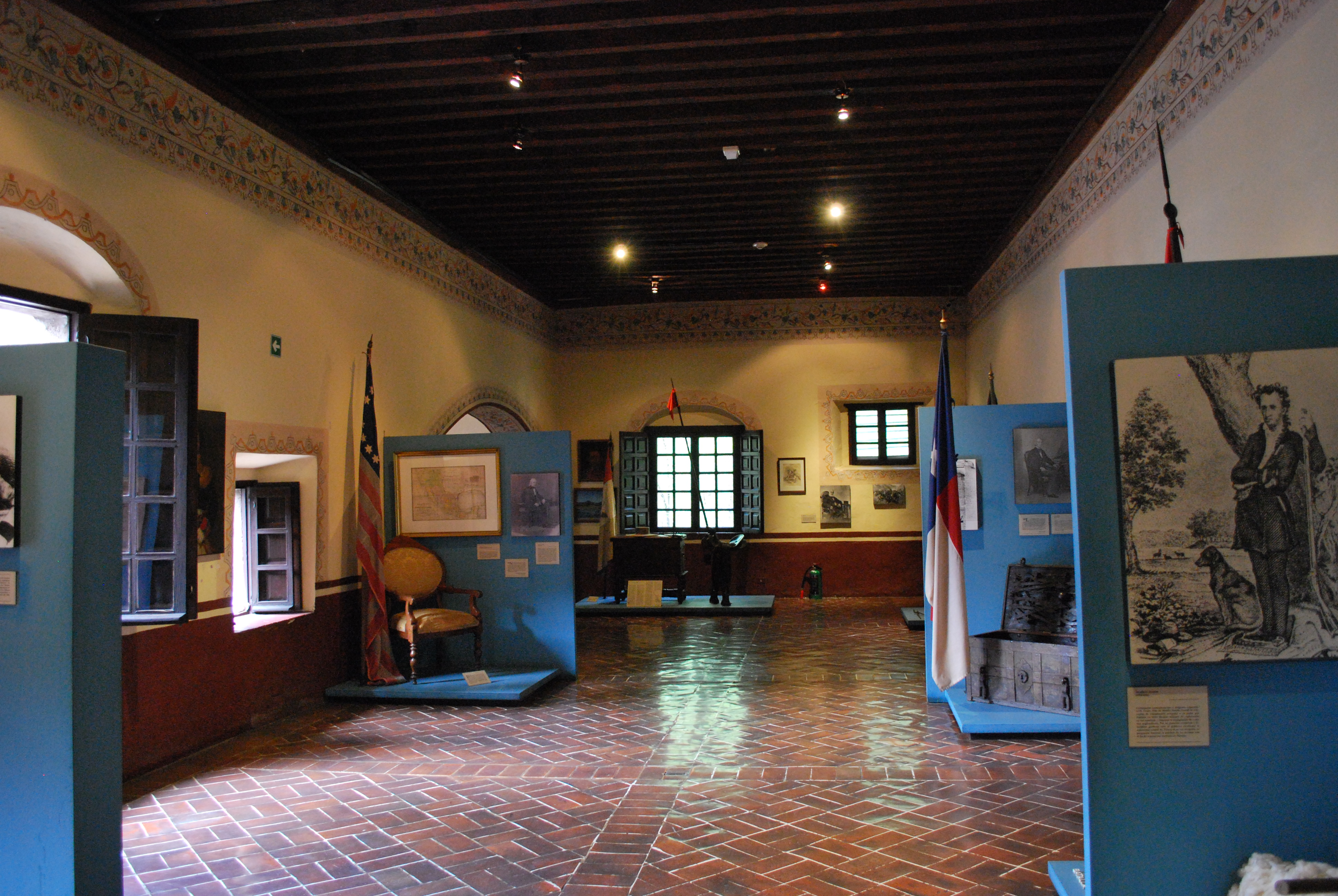 Part of the room dedicated to the Mexican-American War (Intervención Norteamericana in Mexico) at the Museo Nacional de las Intervenciones (ex Monastery of Churubusco) in Coyoacan borough, Mexico City